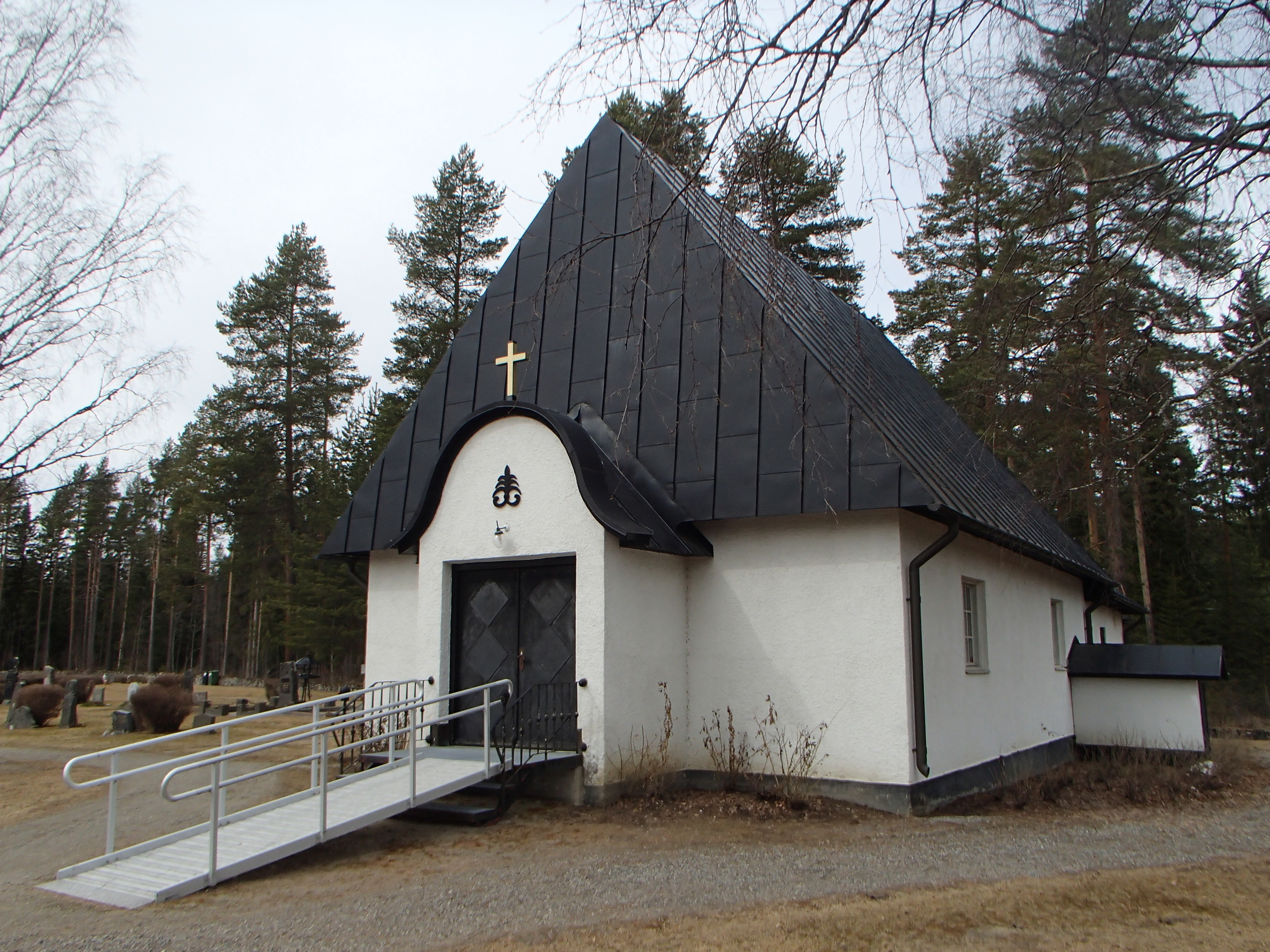 The church building of "Alby kyrka" at Albyvägen 48, Alby, in Ånge Municipality, viewed from southeast